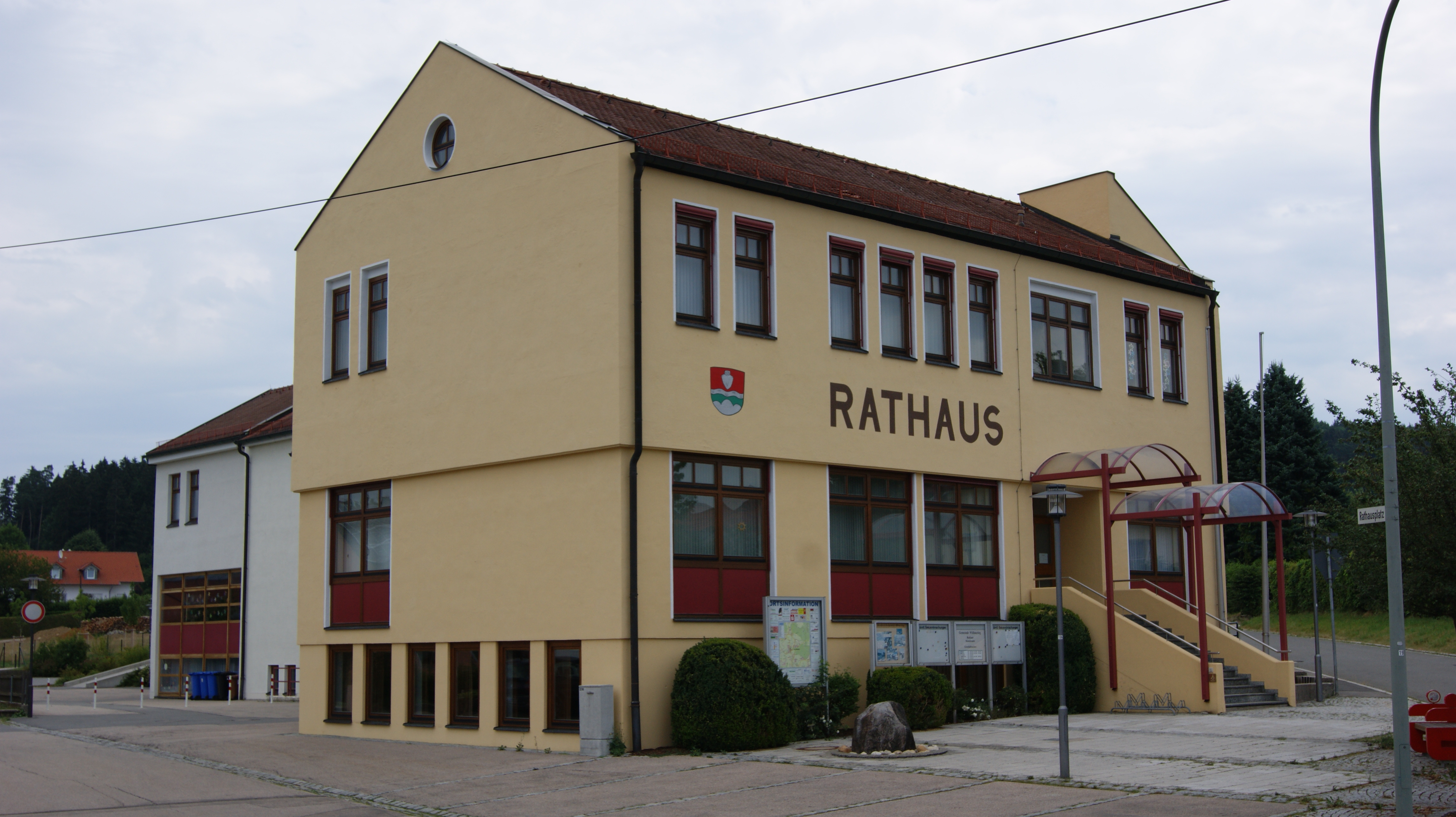 Town hall of Willmering in the administrative district Cham in Bavaria.